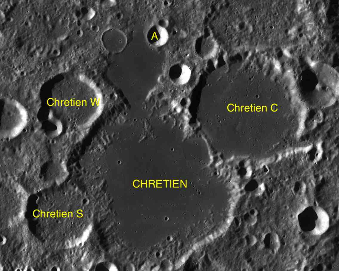 Part of the chart LAC-119 used for the presentation